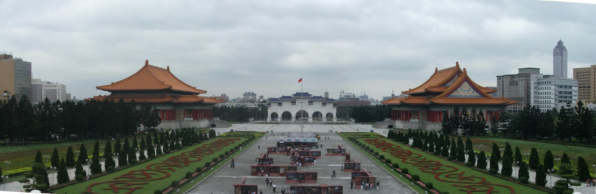 Panorama photo taken from the CKS Memorial Hall (the name was changed to Taiwan Democracy Memorial Hall in May 2007) in Taipei. The building on the left is the National Theater. The building on the right is the National Concert Hall.